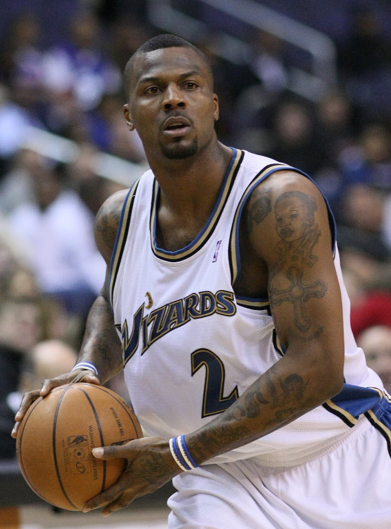 DeShawn Stevenson with the Washington Wizards, December 2008.